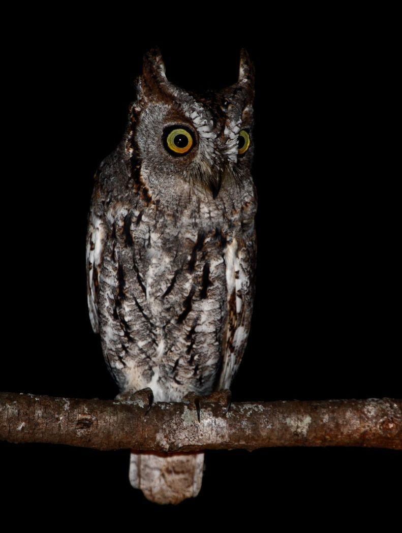 African Scops Owl (Otus senegalensis) near Zebra Hills Lodge, KwaZulu-Natal.